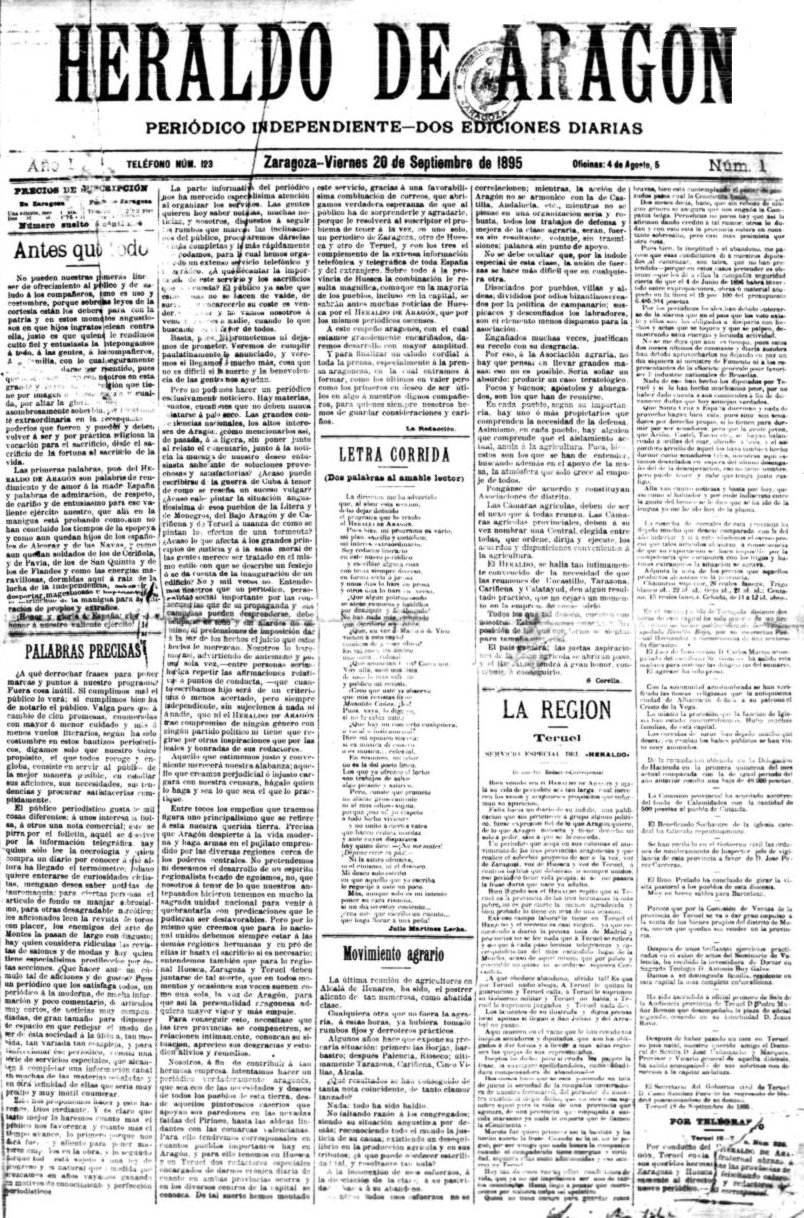 Front page of the first number of spanish newspaper "Heraldo de Aragón" (20/9/1895)